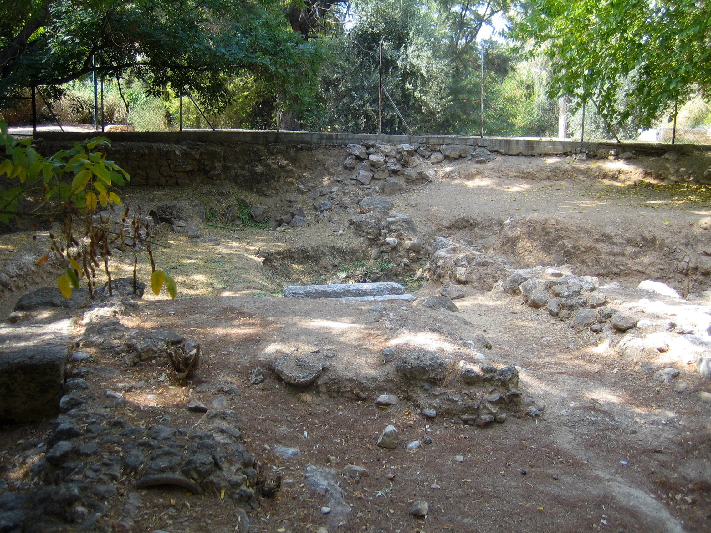 Plato's Academy Archaeological Site in Akadimia Platonos subdivision of Athens, Greece.